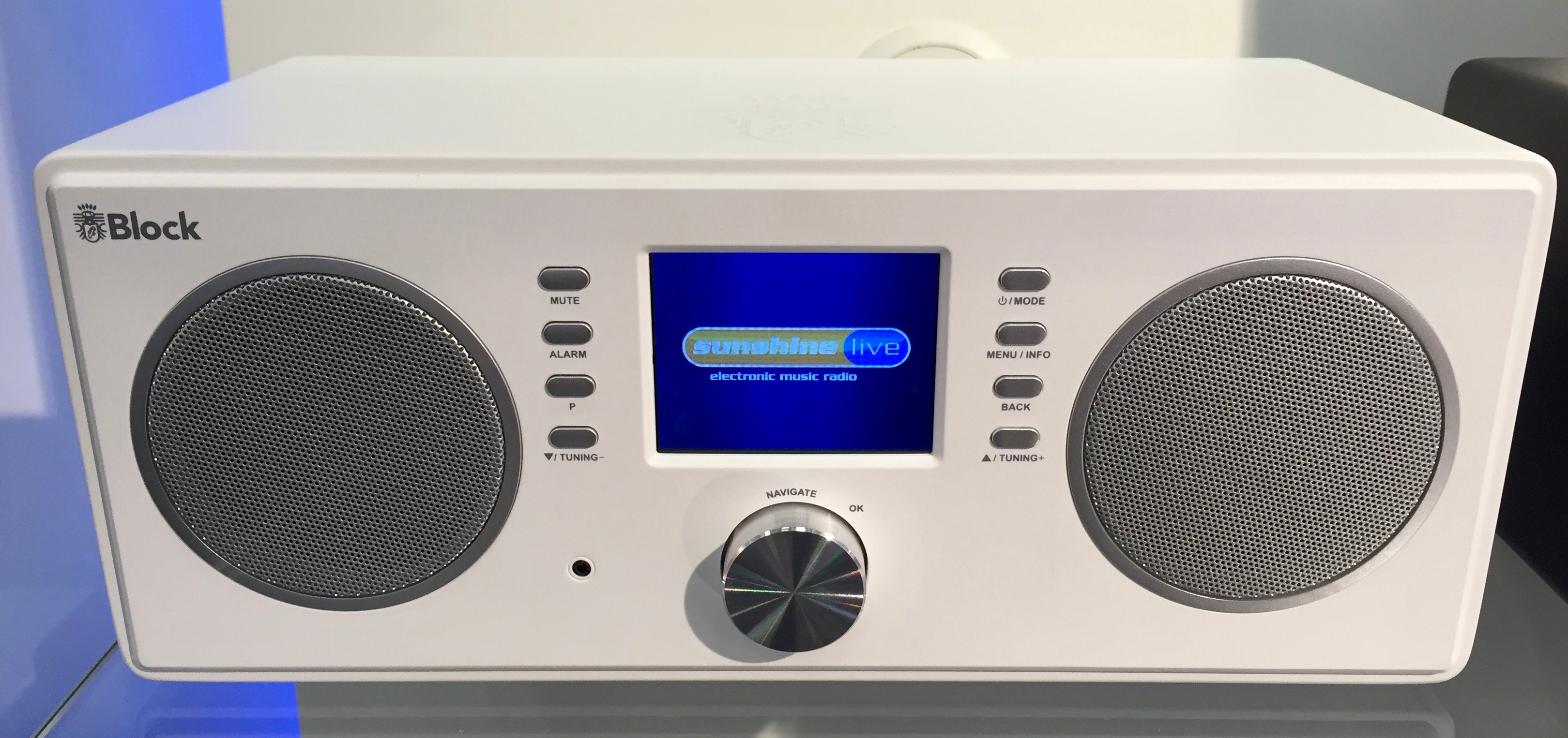 DAB stereo radio